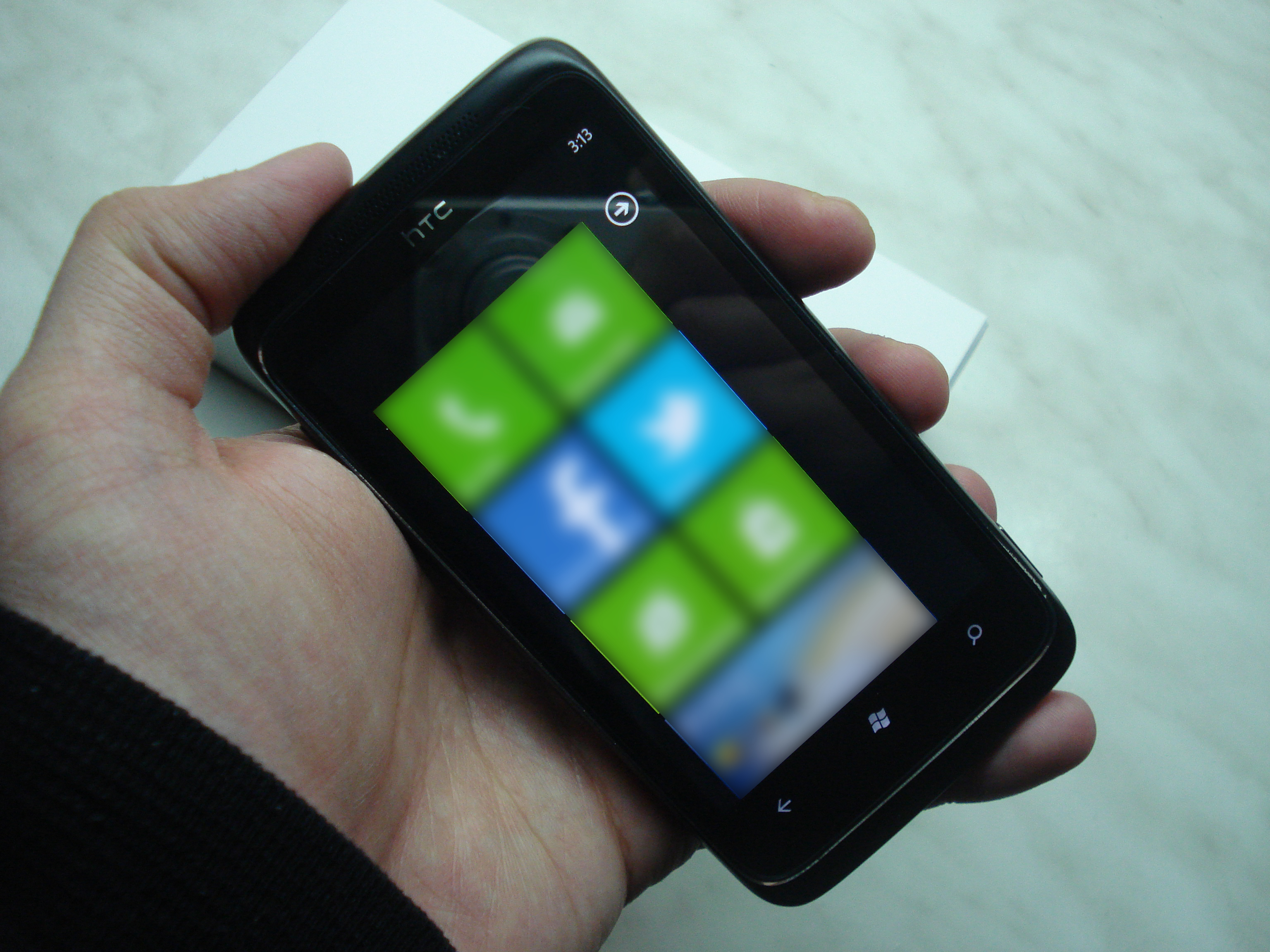 An image of the HTC Trophy